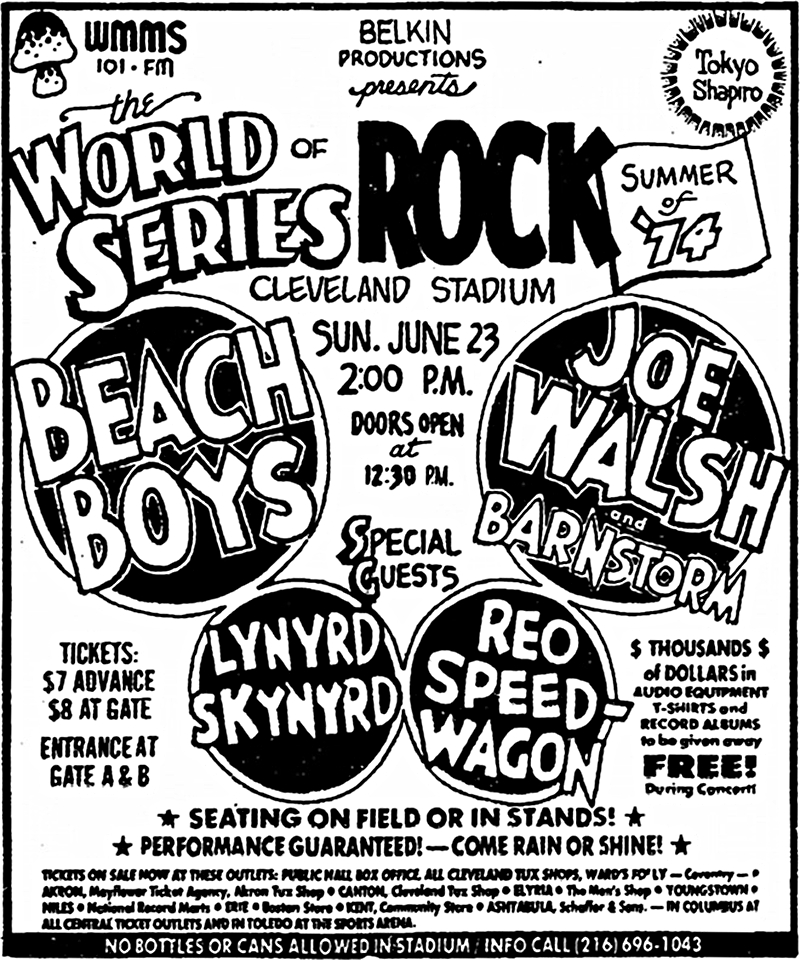 Print ad for 1974 World Series of Rock outdoor concert